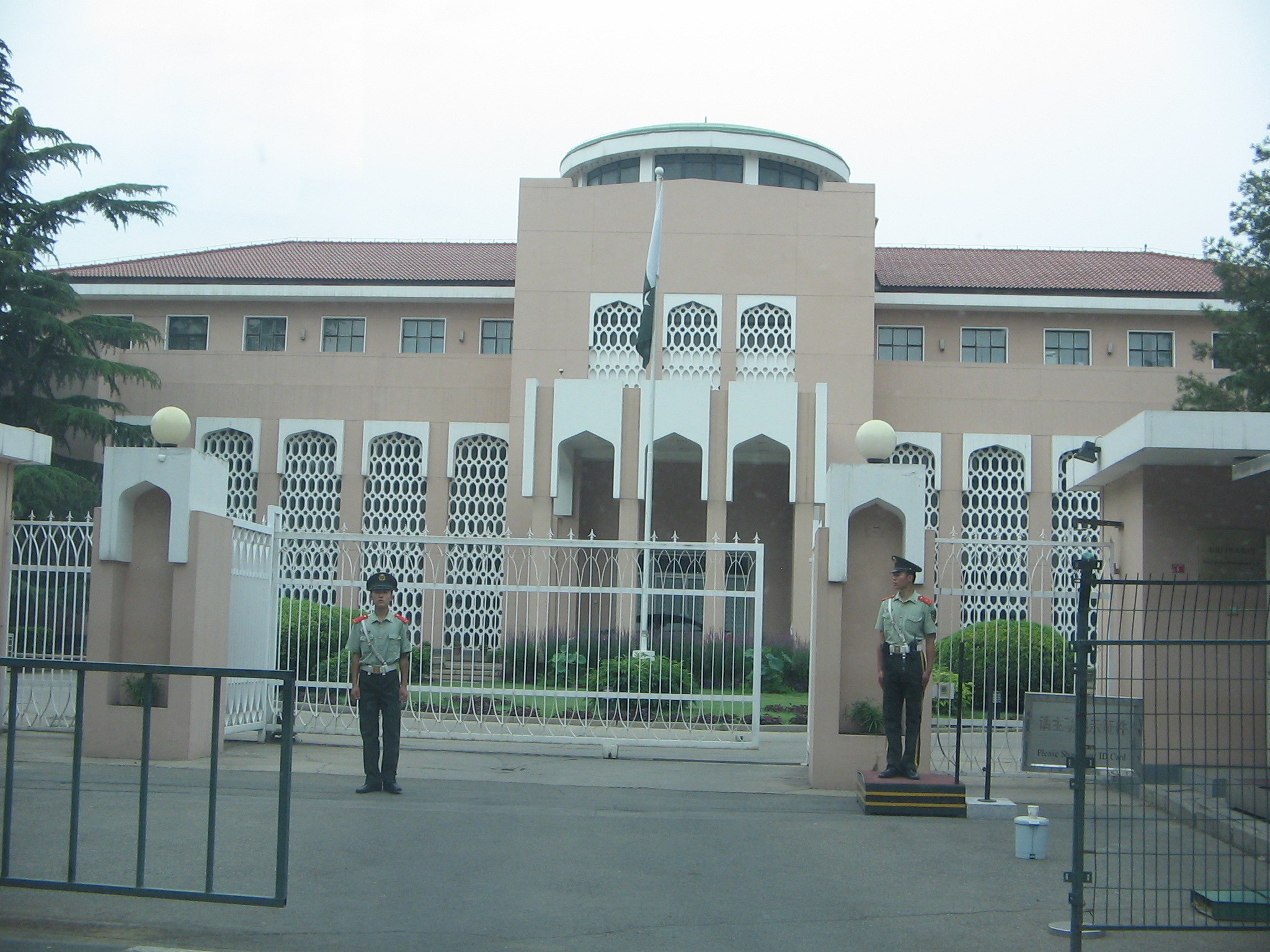 Pakistan embassy in Beijing, China - No.1, Dongzhimenwai Dajie, Post Code 100600.